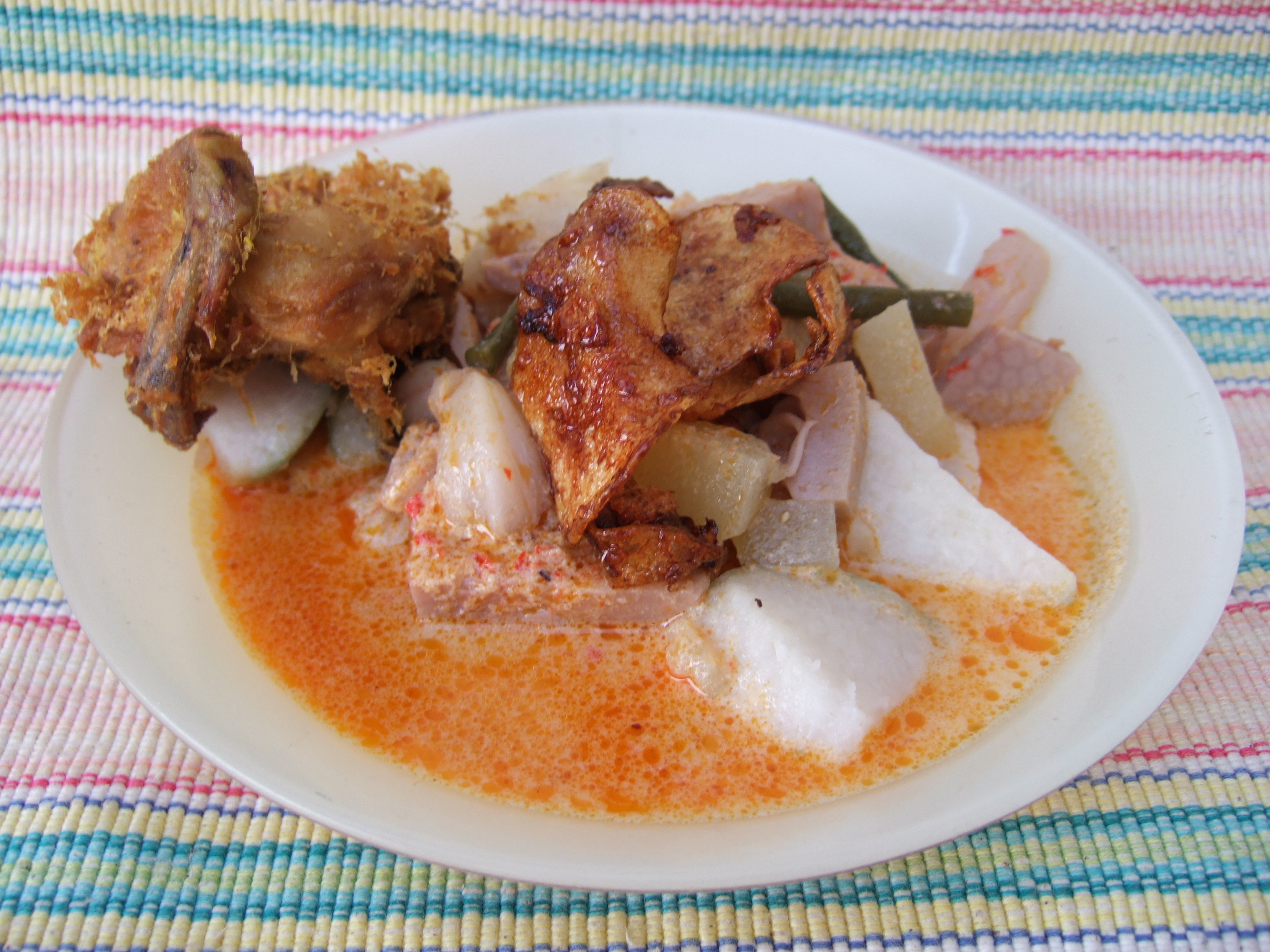 Jakarta rice cake with spicy jackfruit soup